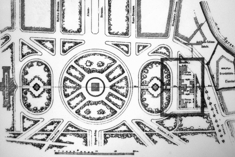 Plan of situation of the so called "Krolloper", a historic amusement-center and theatre in Berlin.